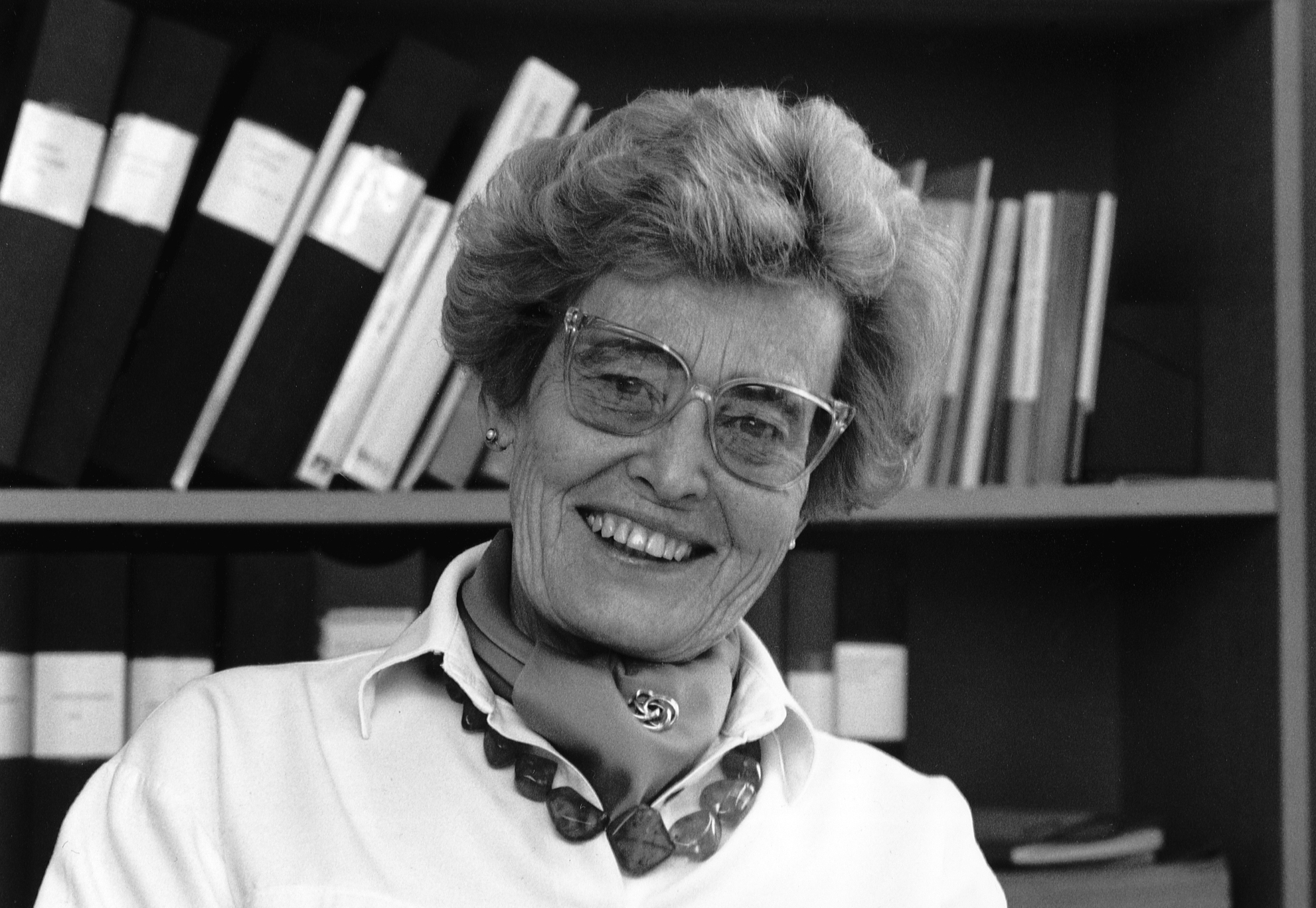 Marianne Kärrholm, bilden tagen troligtvis under 80-talet